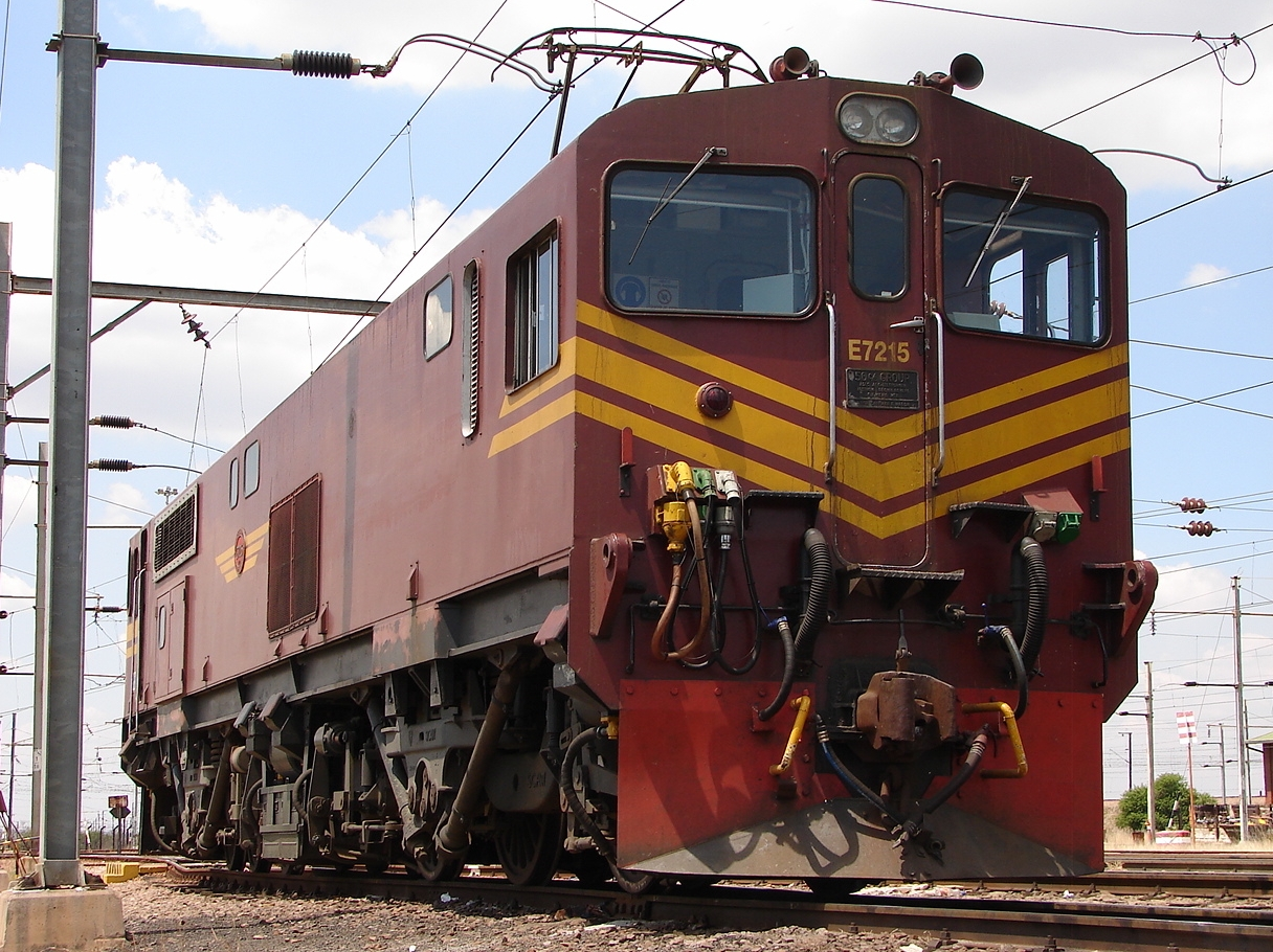 SAR Class 7E2 Series 2 E7215 Location: Pyramid South, Pretoria, Gauteng